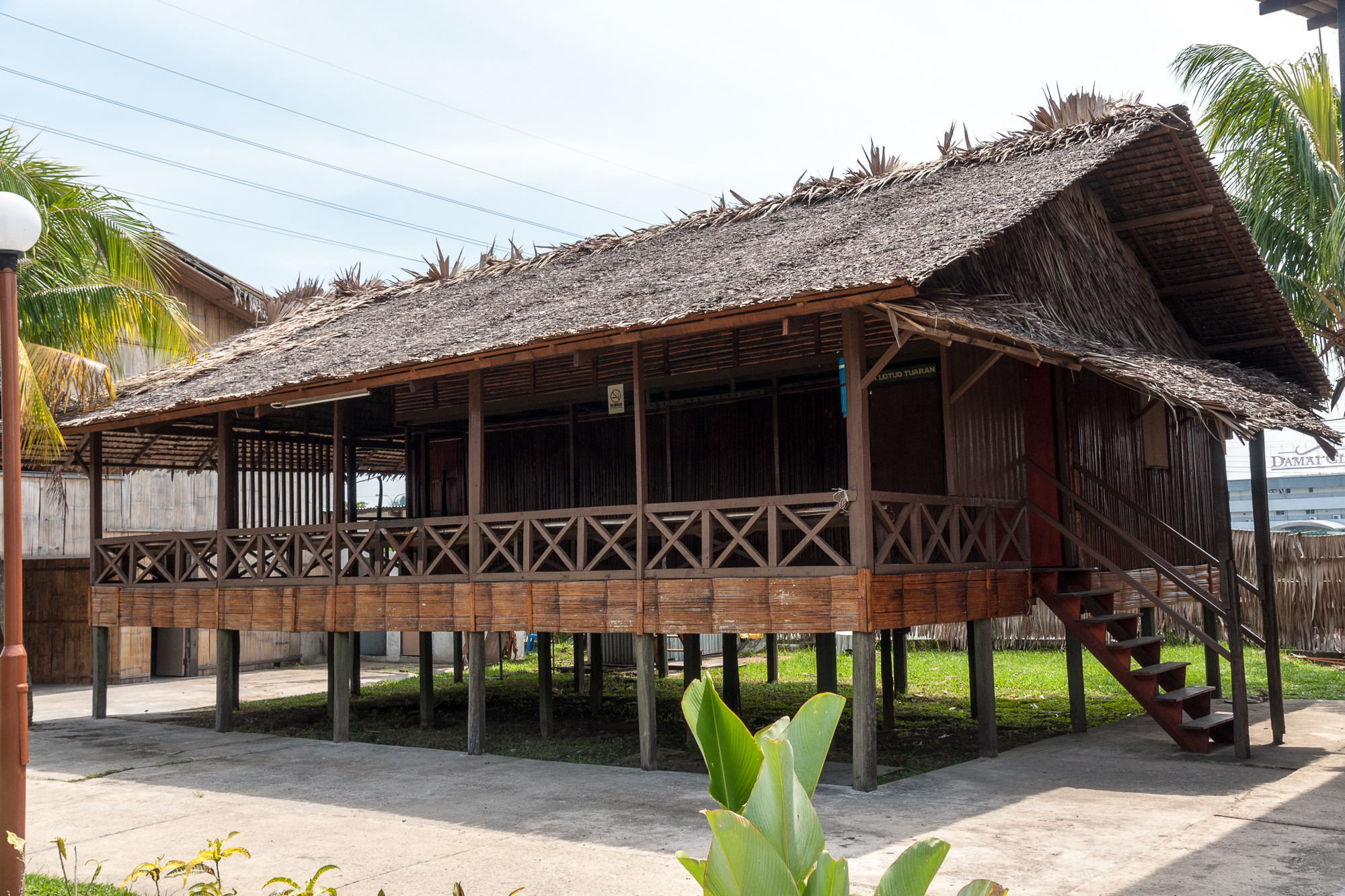 Penampang, Sabah: Heritage Museum, an exhibition of traditionell native houses within the area of Hongkod Koisaan: Rumah Lotud Tuaran